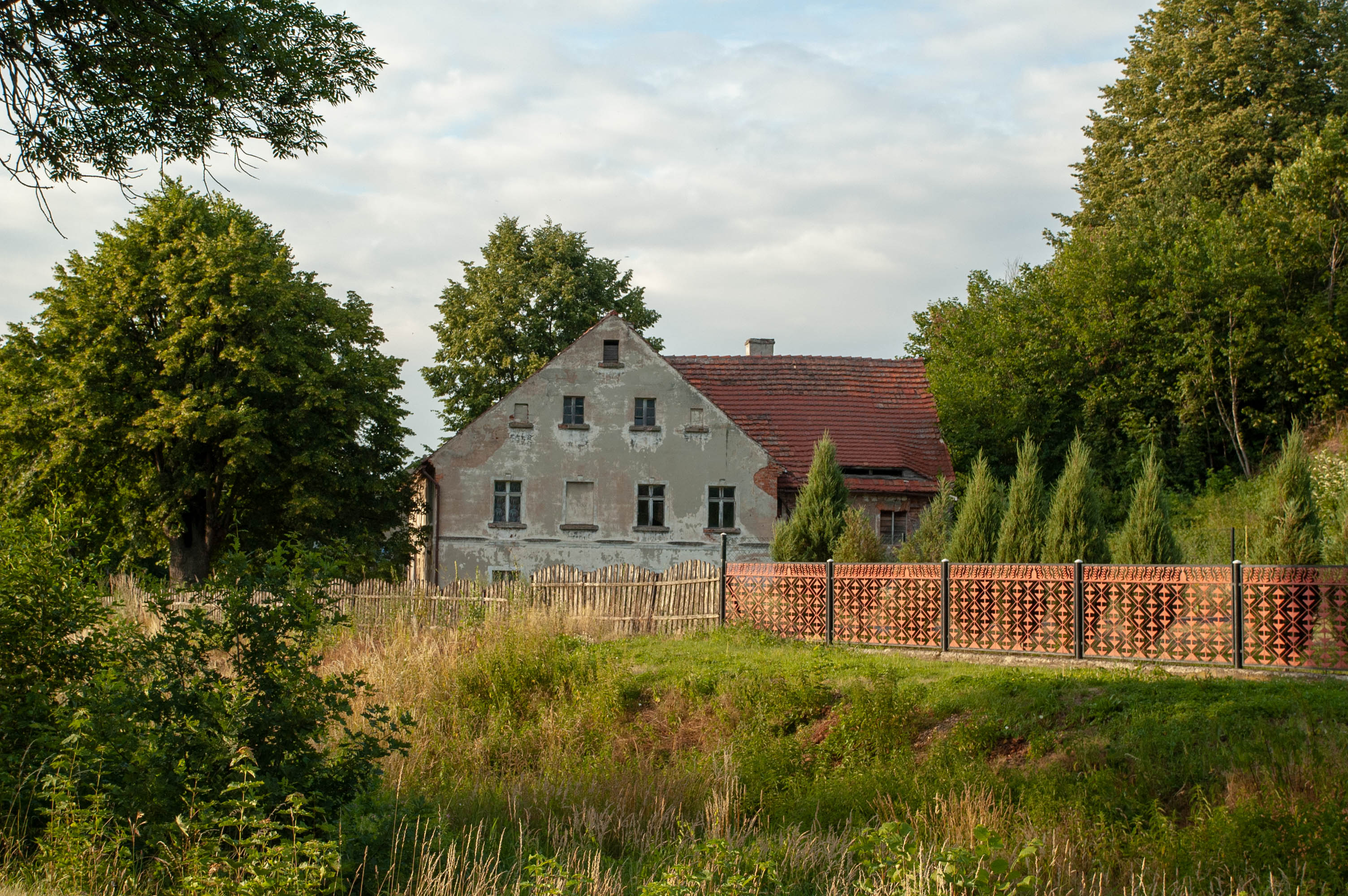 This photograph was created as a part of Wikiexpedition Lower Silesia, a project supported by Wikimedia Poland grant.